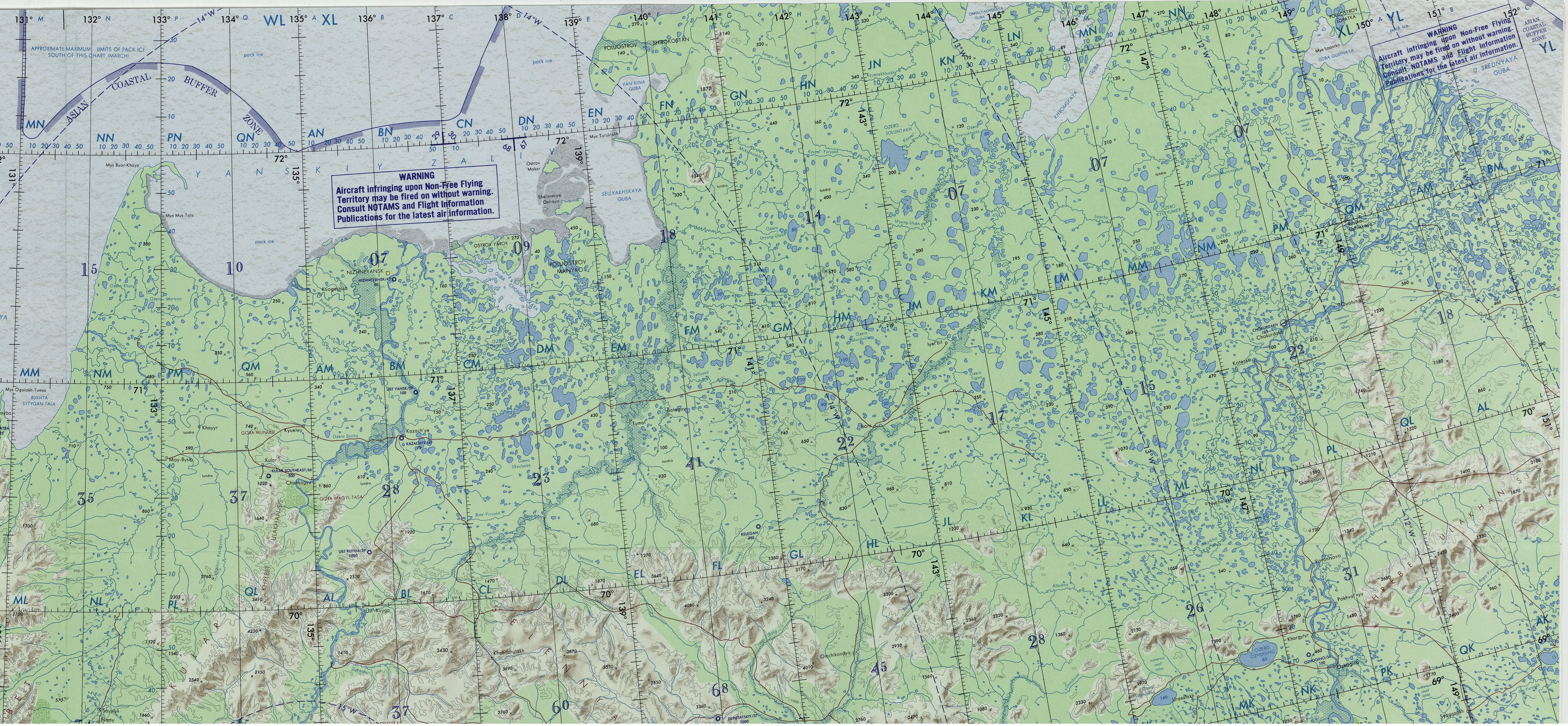 Map section showing the Yana-Indigirka Lowland. Sakha (Yakutia), Russia